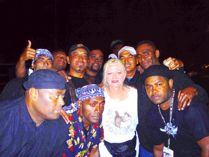 A colored picture of Toni Willé with Fijian Band called 'The Cruzez'